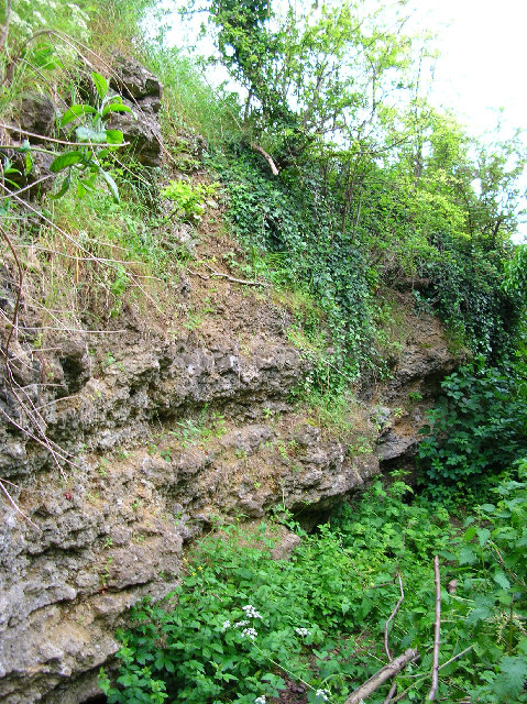 Rock Edge, Oxford. Much of Headington is built around old limestone quarries. Only one good exposure of the limestones survive, at Rock Edge (formerly Crossroads Pit), at the junction of Windmill Road and Old Road. The limestones have been quarried since the twelfth century. They provided building stones for the older houses in Oxford, as well as parts of many colleges.